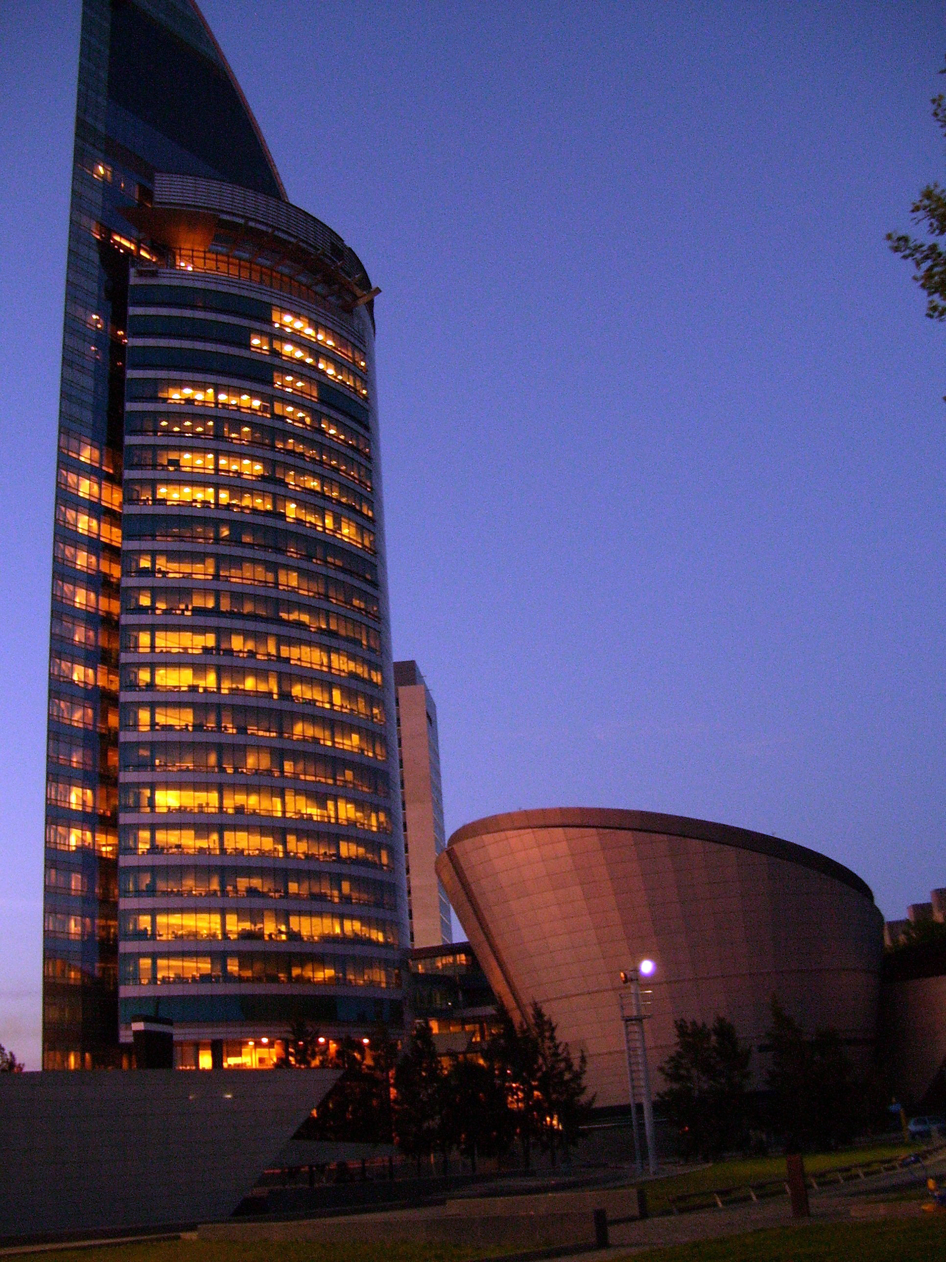 "Tower of the Telecomunications", central building of the uruguayan telephon organism. At sunset.